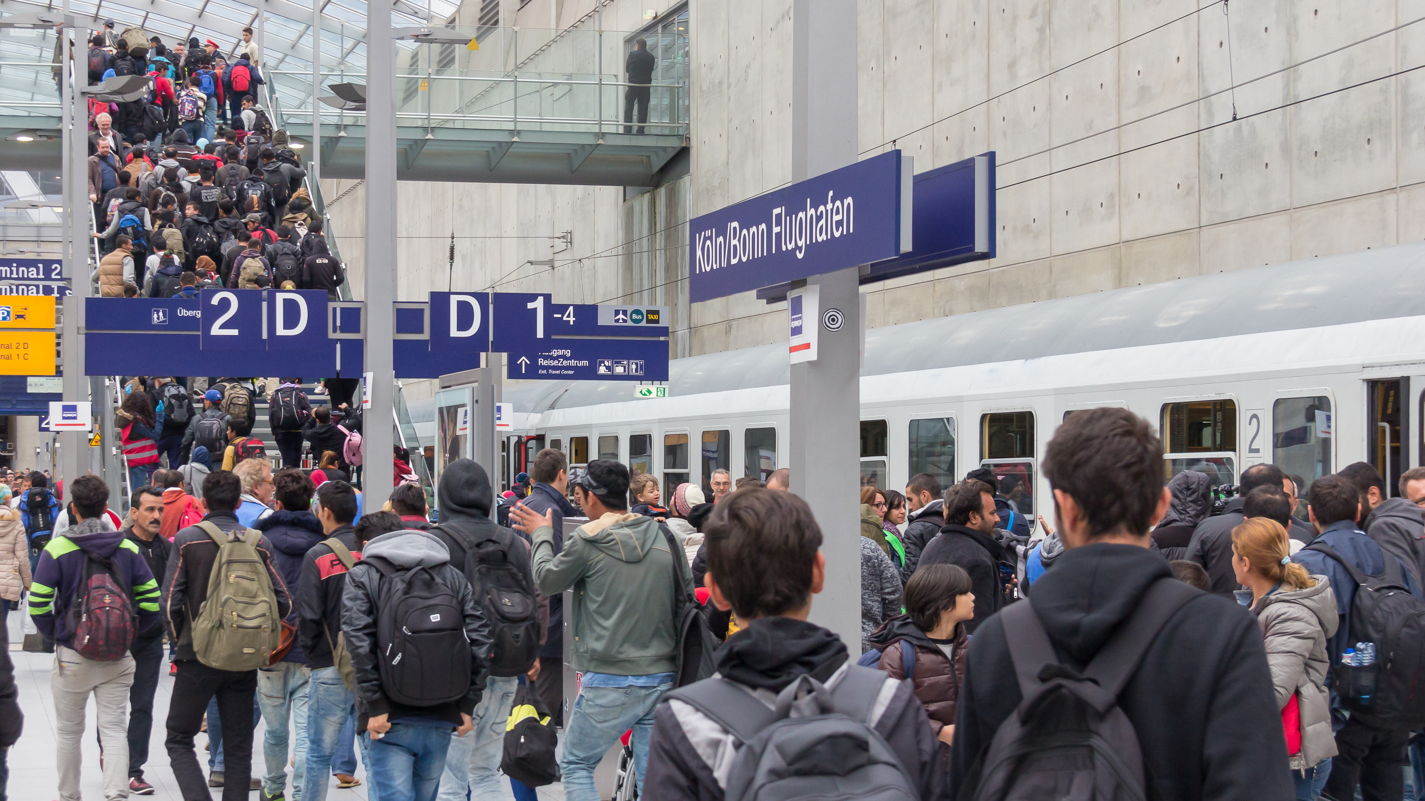 Arrival of refugees with a special train by Deutsche Bahn from the Austrian/German border at the station of Cologe/Bonn airport. In big tents on the ground the refugees can rest and eat, get new clothes and they can charge their smartphones. Medical assistance is available too. After ~ 2 hours the refugess will be transported by busses to buildings of the country of North Rhine-Westphalia